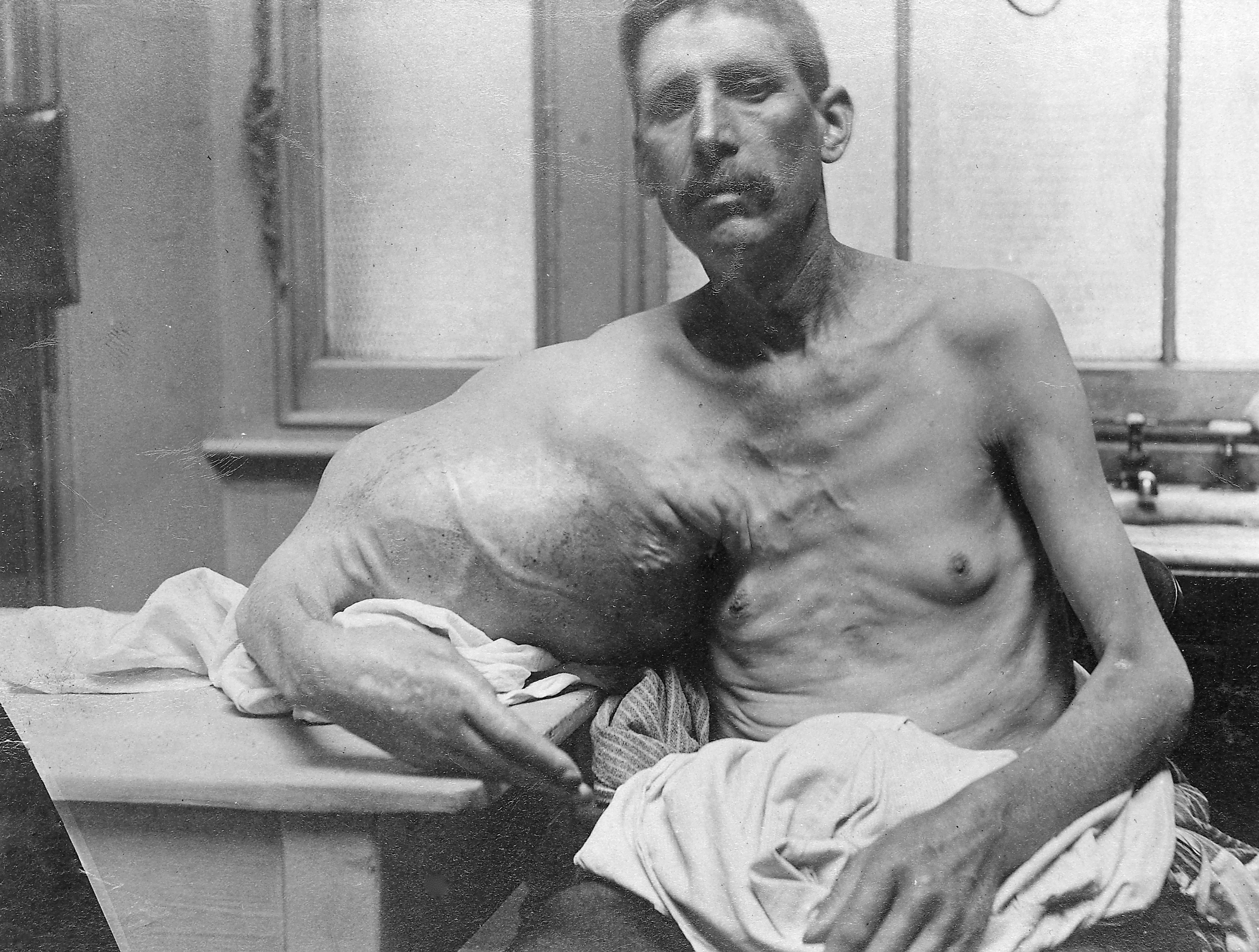 Black and white photograph of a male patient, aged 49 years, with a very large osteo-sarcoma of the right humerus. The tumour had existed for eight years, but had increased very rapidly during the last year. It was removed by amputation at the shoulder joint, and the patient made a good recovery. The limb, with tumour, weighed 33lbs, after removal. Photograph taken by John Howell Griffiths whilst a student at St Bartholomew's Hospital Medical School. Medical Photographic Library Keywords: St Bartholomew's Hospital Photographic Society